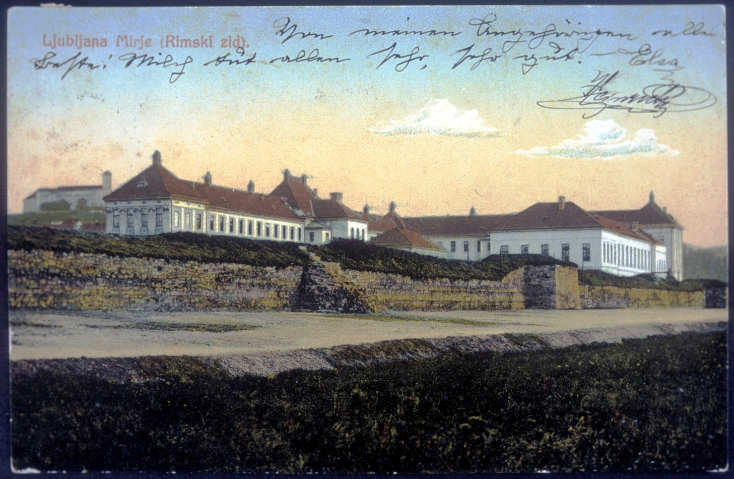 Roman wall in Mirje in the second decade of the last century, before Plečnikova renovation. postcard; the subject of food MGML?